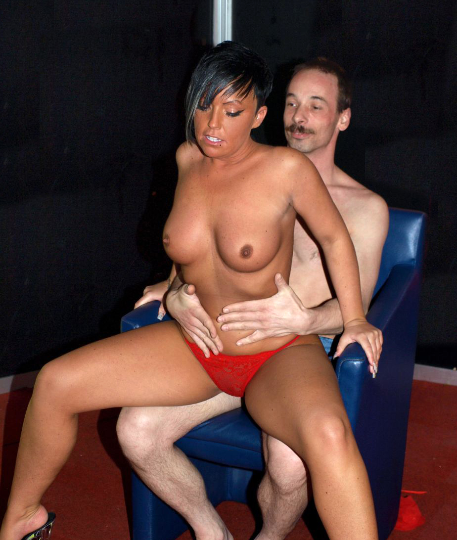 Derived from "ErosPyramide20090221_023". This image is being posted for use in an article related to lap dances as part of striptease performances in strip clubs and other venues. It is illustrative of one of the forms and body positions.